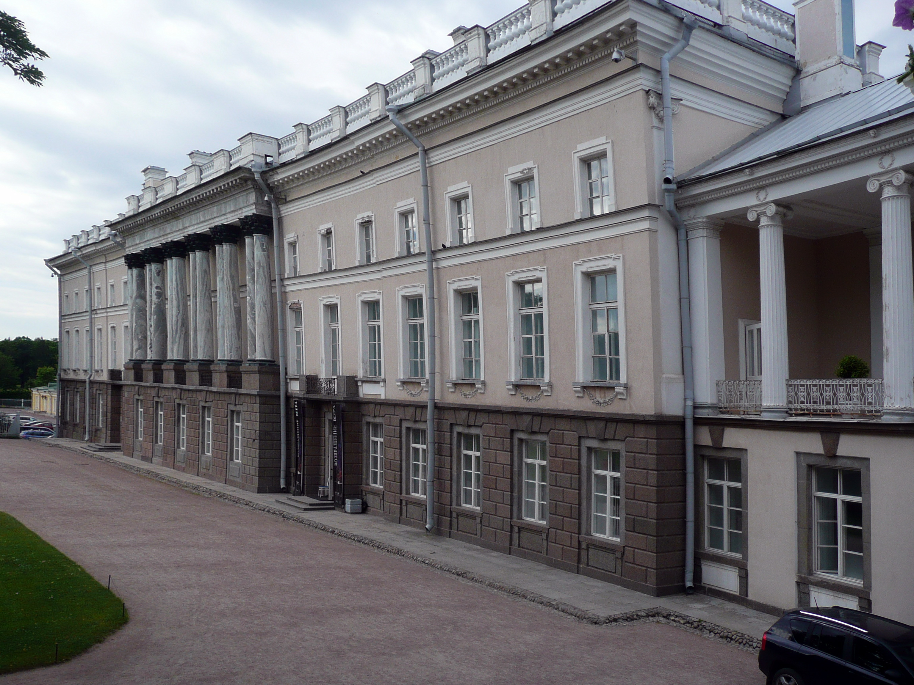 The Neoclassical wing of the Catherine Palace in Tsarskoe Selo